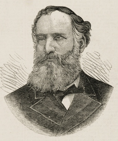 Illustration of George Dibbs, Colonial Treasurer of New South Wales.